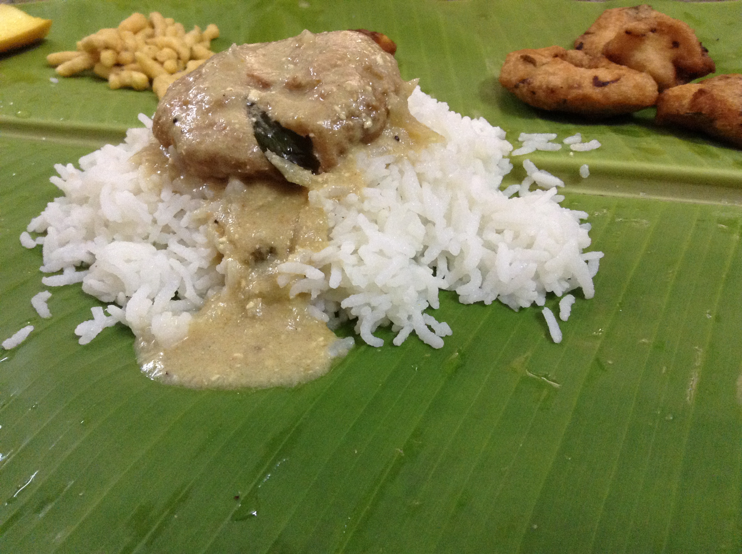 This food is served in the plantain leaf. food is served in plantain leaf as the food eaten plantain leaf is said to increase the life span human being and tastier.the image consist of the more rice,vada ,mango.